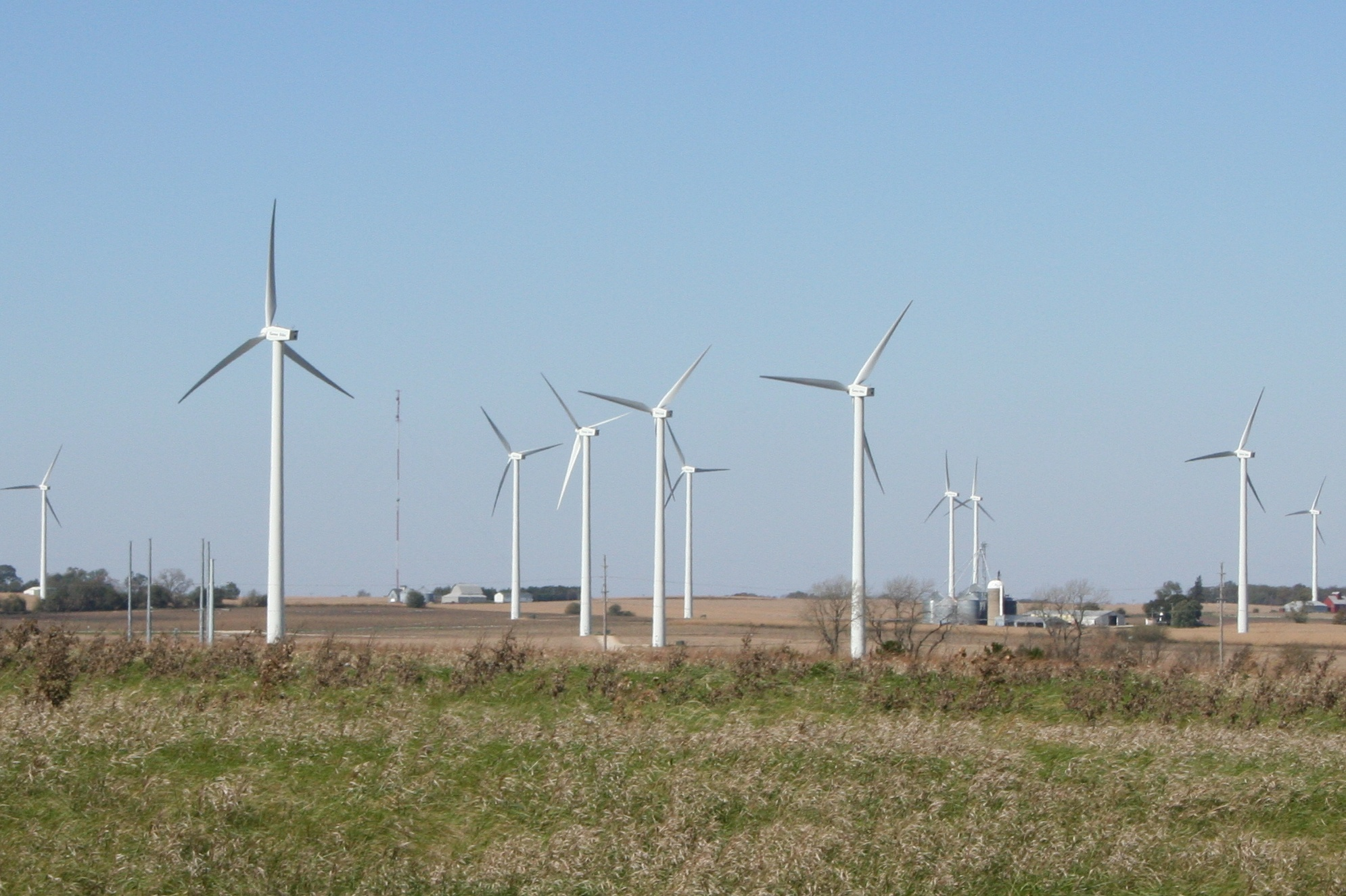 Illinois_wind_farm west of I-39 exit 82, in Southeast Lee County, Illinois. Brooklyn or Wyoming township